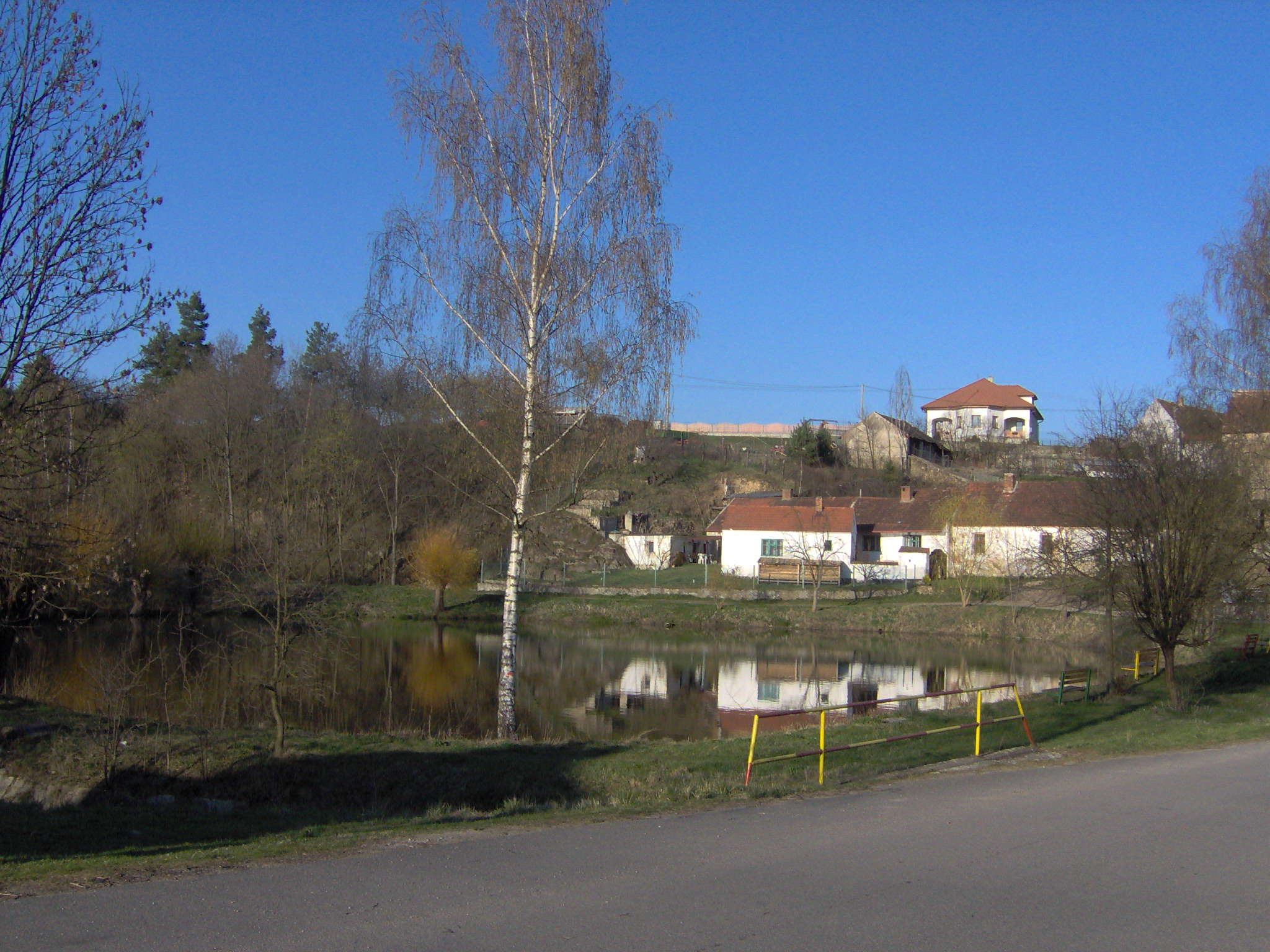 Pond in Kapsova Lhota, part of Radošovice, Strakonice District, Czech Republic Česky: Rybník v Kapsově Lhotě, části Radošovic v okrese Strakonice